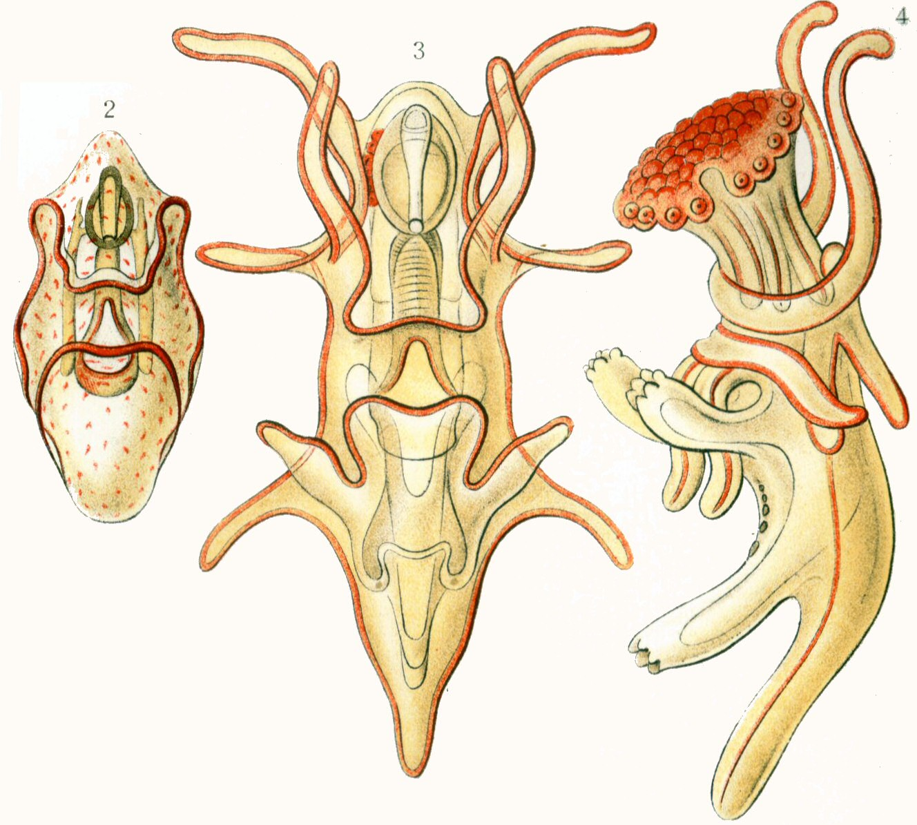 Three kinds of Starfish larvae (from left to right) scaphularia larva, bipinnaria larva, brachiolaria larva, all of Asterias sp. Painted by Ernst Haeckel (1834-1919) in Kunstformen der Natur (1904), plate 40.